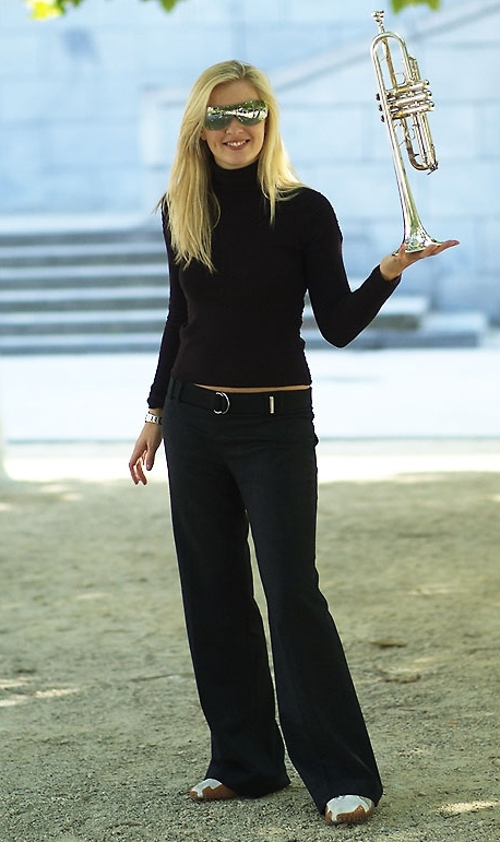 Alison Balsom